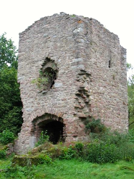 Foto of the ruin "Mauerschaedel" near the village Filke - Bavaria - Thuringia - Germany